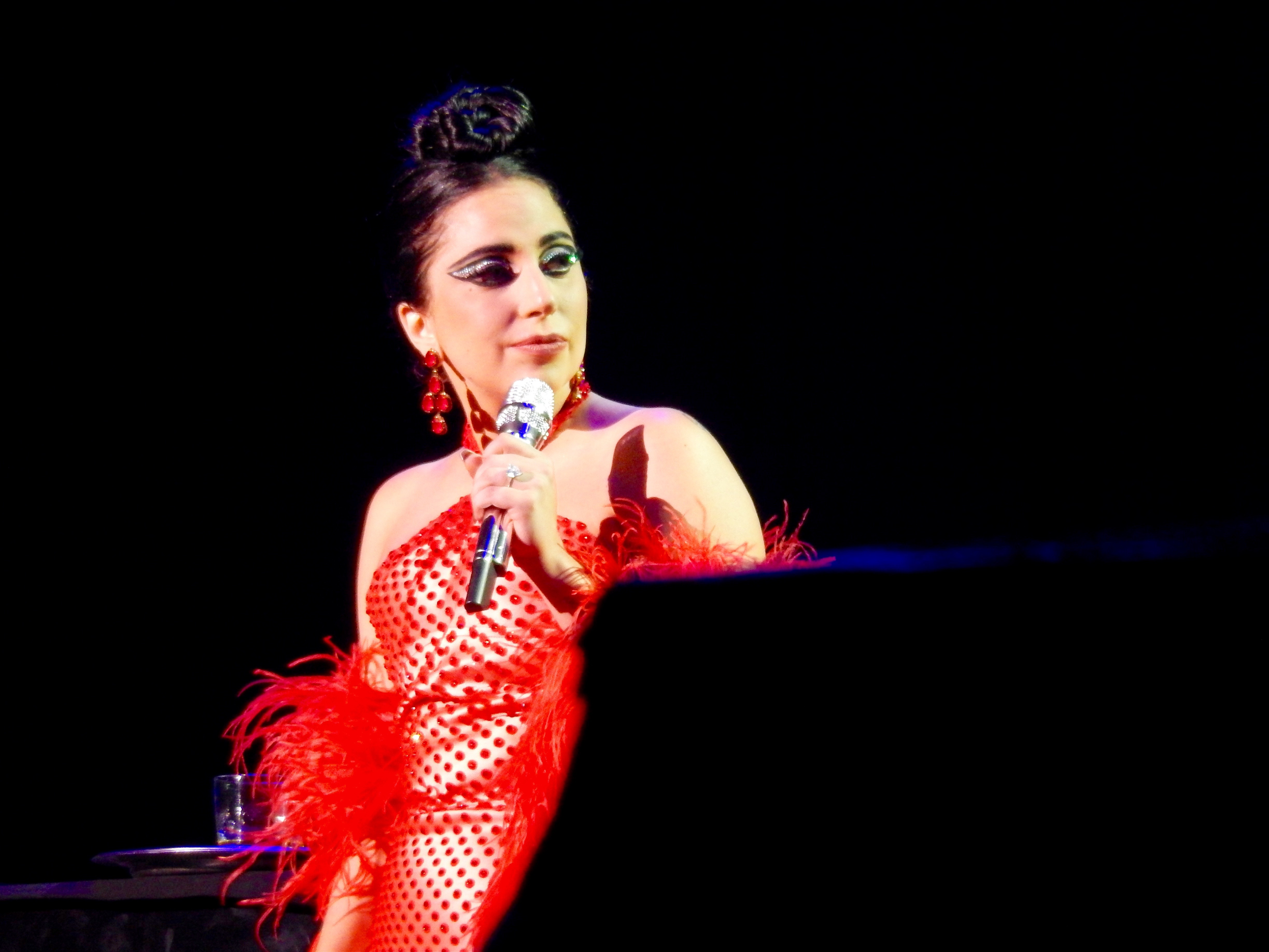 Cheek to Cheek Concert. The Axis. Planet Hollywood. Las Vegas. April 2015. Gaga and Bennett performing at Los Angeles for the Cheek to Cheek Tour